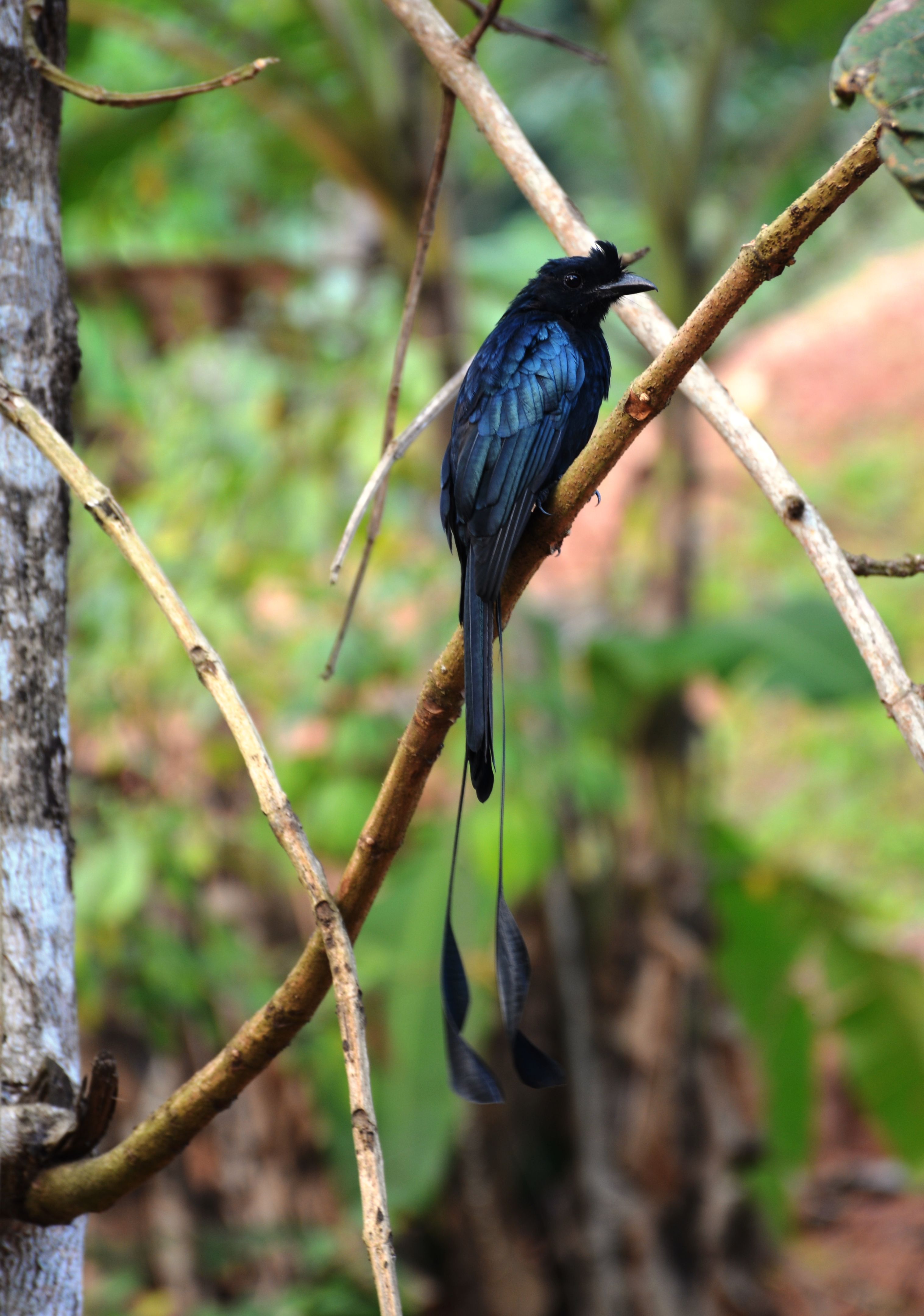 A Greater racket tailed Drongo sitting on a tree-top